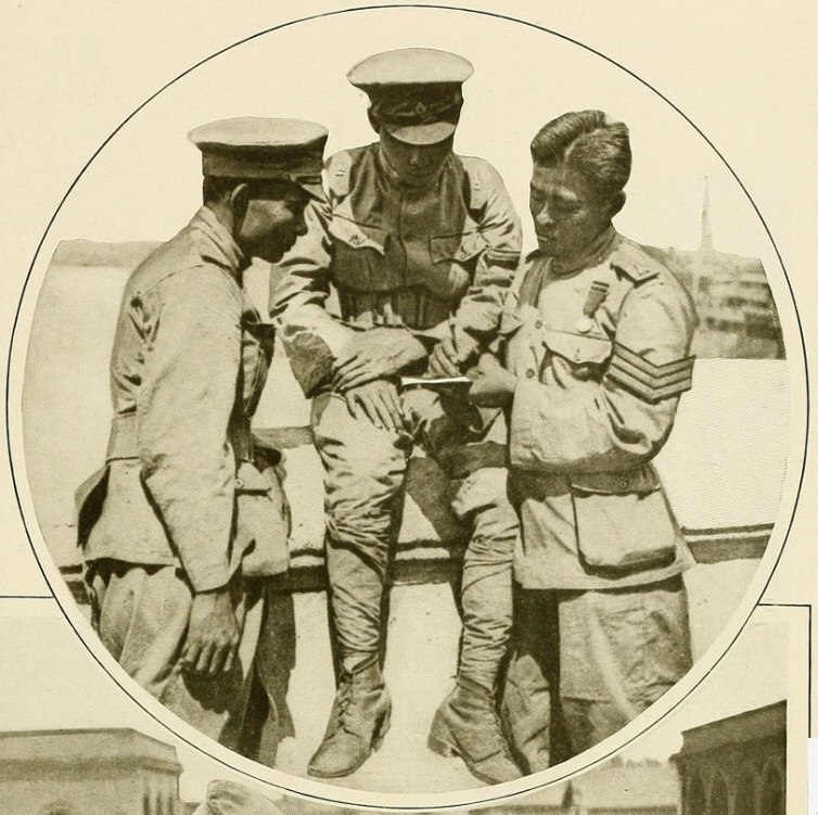 “Siamese troops in France - writing letters to families at home” - from the book Fighting America's fight.